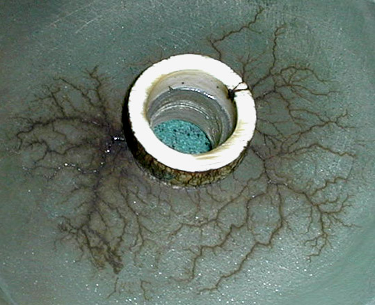 A polycarbonate plate, originally part of a high voltage Trigatron spark gap switch, tracked by a 2D Electrical tree. The device had a design flaw: the small white cylinder of PVC began to break down when subjected to corona discharge. This liberated hydrogen chloride HCl gas. The HCl then absorbed water from the air, depositing a partially-conducting film of hydrochloric acid on the surface of the polycarbonate. This led the formation of 2D carbonized tree-like patterns across the surface of the polycarbonate. The conductive paths ultimately led to premature breakdown and operational failure of the trigatron. From Bert Hickman, Stoneridge Engineering